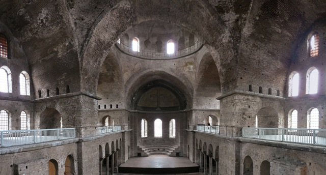 Inside Hagia Eirene